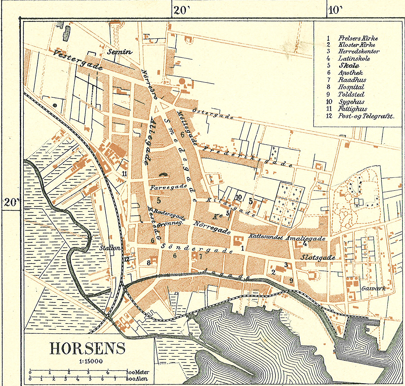 Map of Horsens in Skanderborg County in Denmark